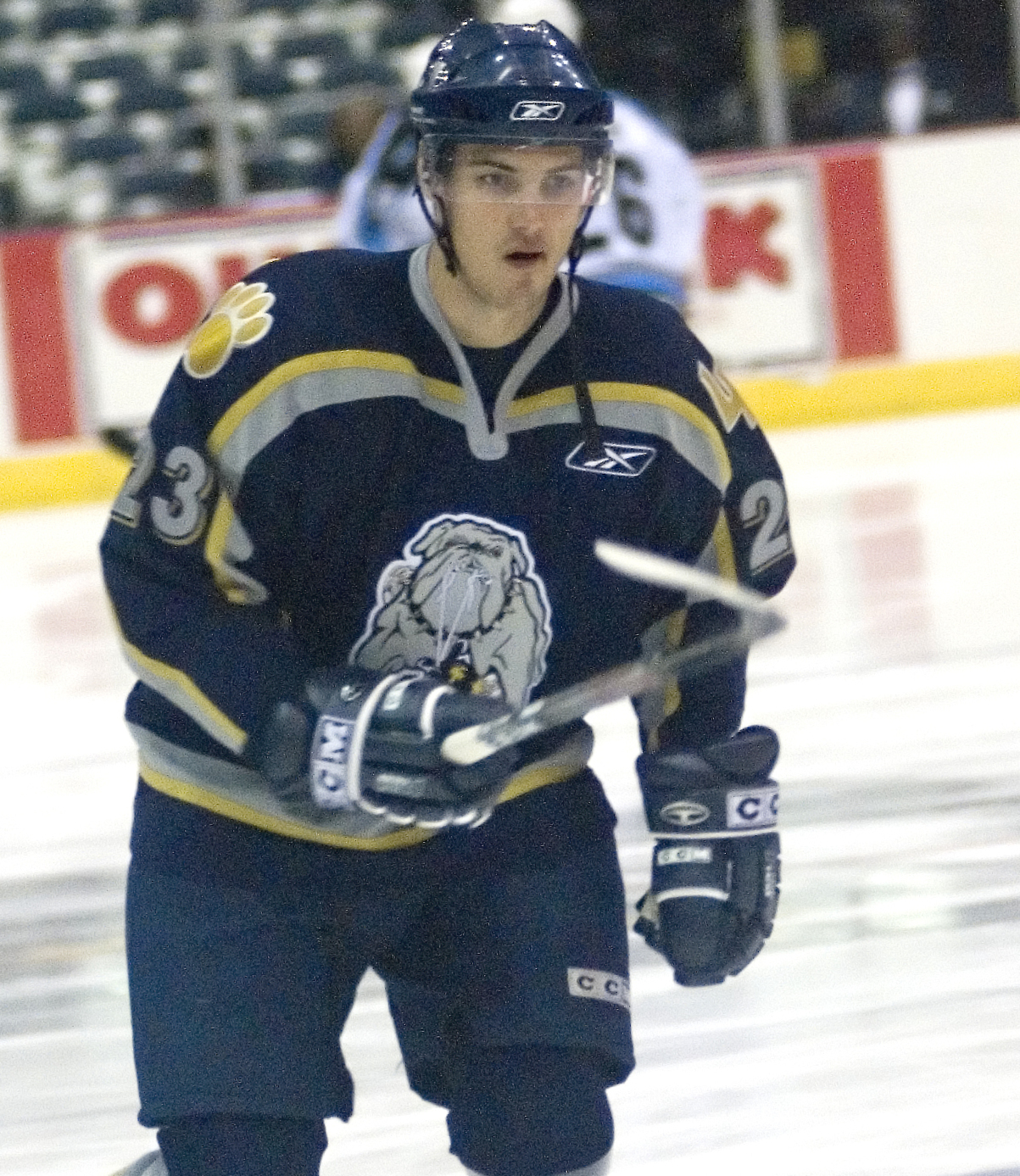 Alexei Smirnov, forward for the Long Beach Ice Dogs. This former NHLer (he was drafted in the first round of the 2000 NHL entry draft by Anaheim) had his first start for the Ice Dogs on this night. He wasn't much of a factor against the Alaska Aces but then again this was his very first game with any team in any league this season.